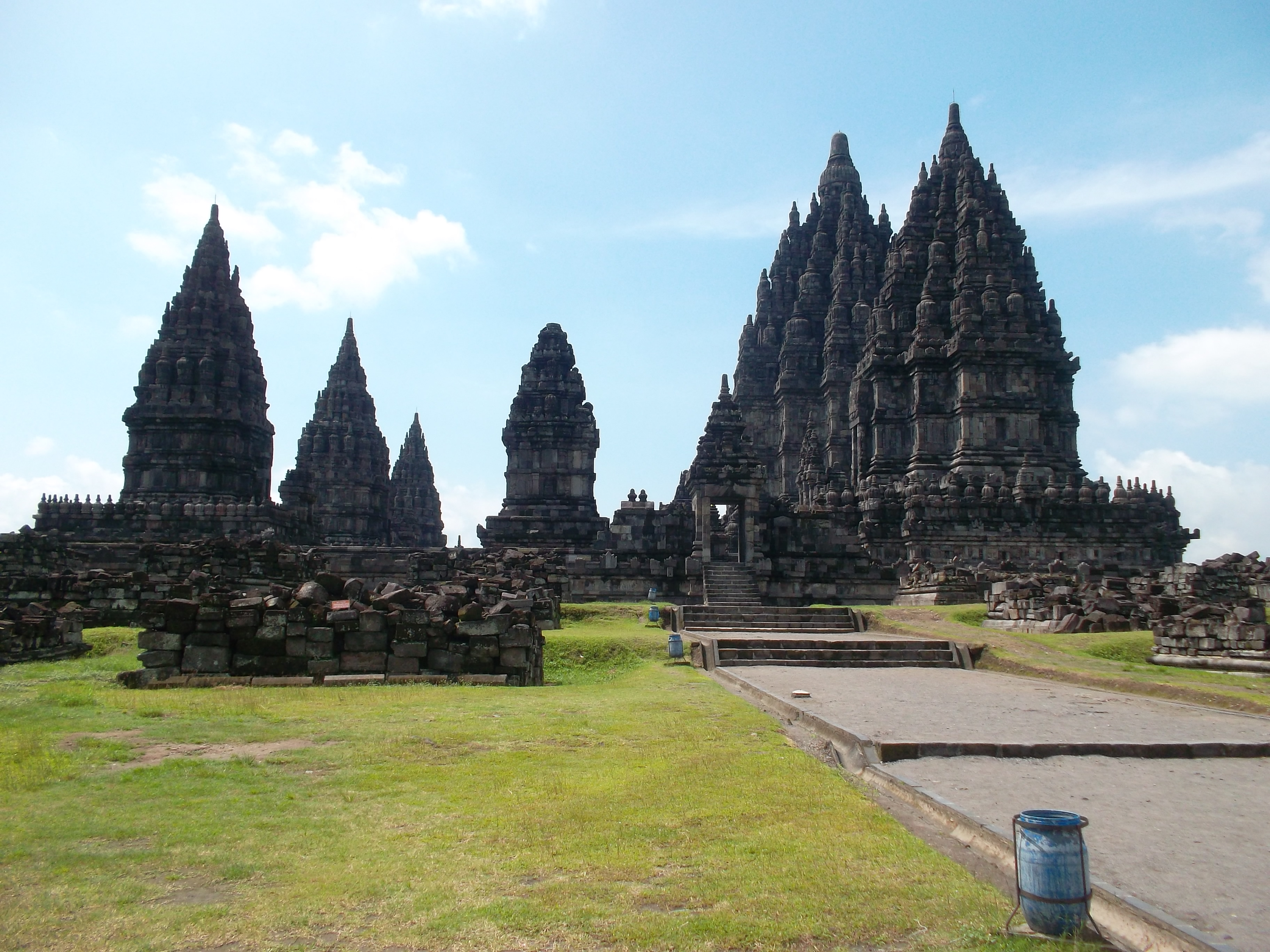 CANDI PRAMBANAN